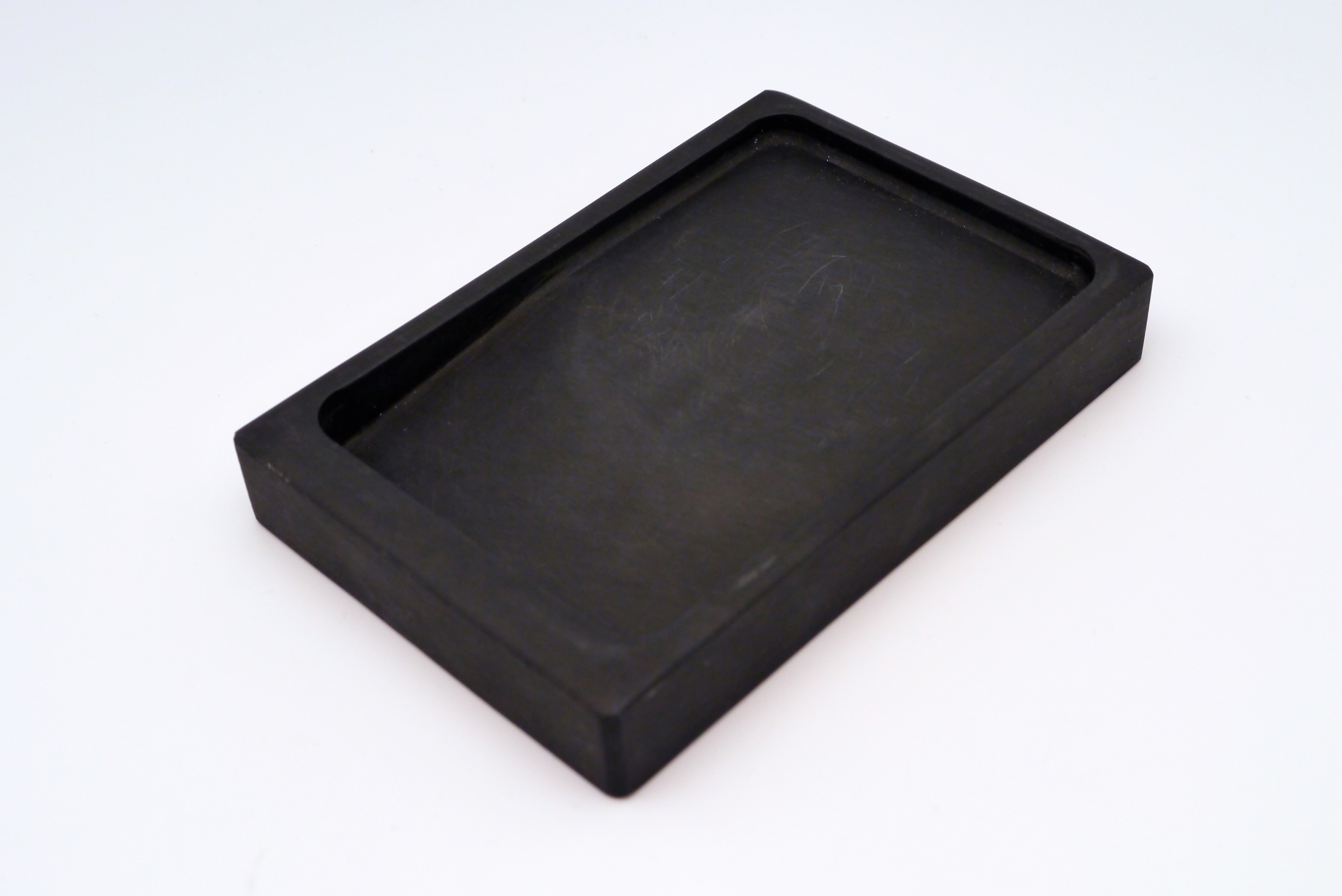 Ink stone for chinese calligraphy/painting.